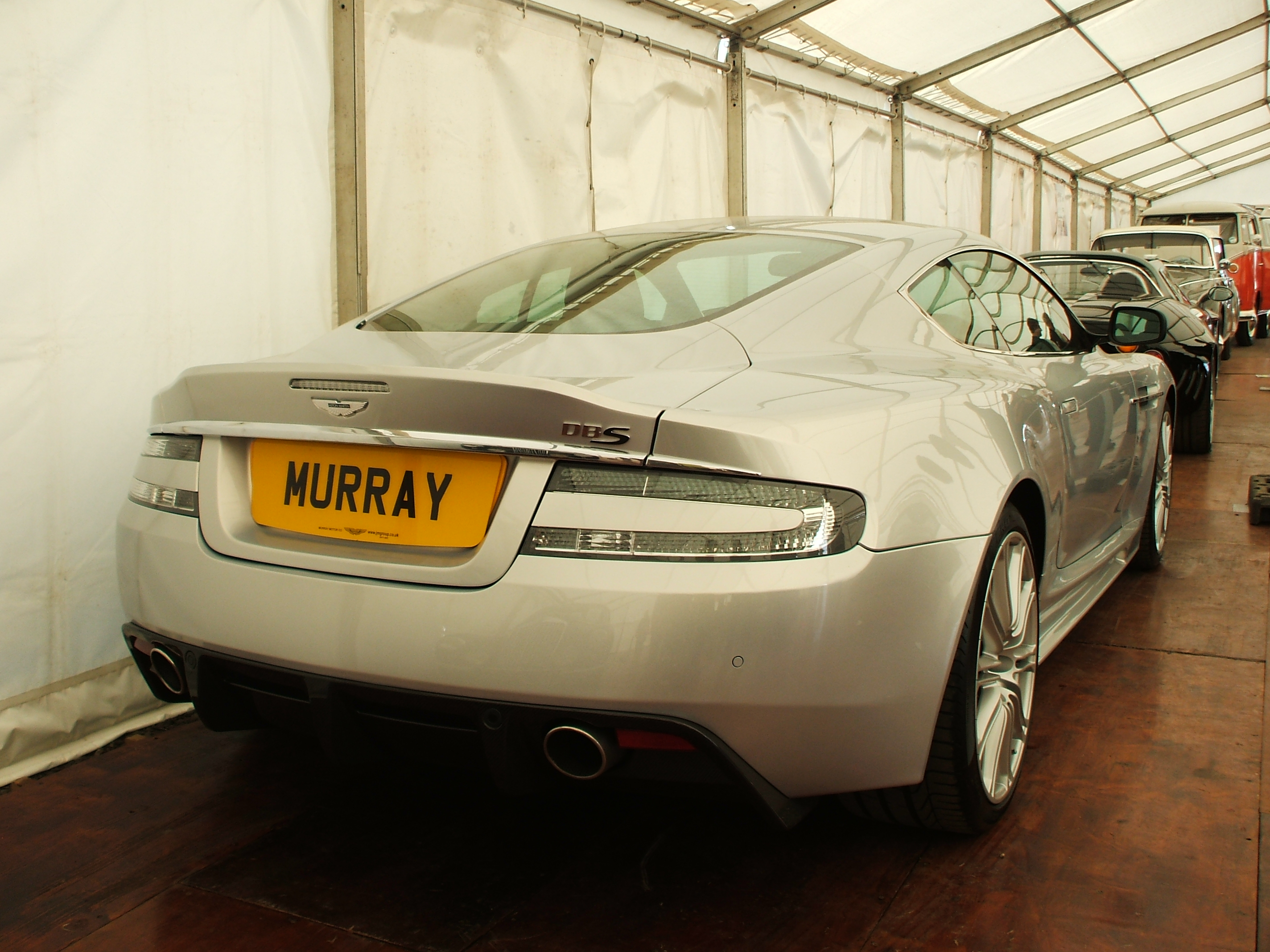 Aston Martin DBS (2007) rear view.